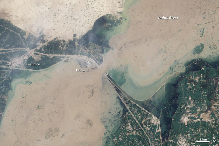 By mid-August, the extreme monsoon floods that had overwhelmed northwestern Pakistan had traveled downstream into southern Pakistan. The top image, acquired by the Landsat 5 satellite on August 12, 2010, shows flooding near Kashmor, Pakistan, just before the second wave of the flood hit. The lower image, provided for context, shows the region on August 9, 2009. Even before the second wave reached this section of the Indus, floods covered much of the city of Khewali and the surrounding farmland. The flood-widened river is muddy and brown in the top image, and it impinges on the cement-gray town of Khewali. As if constrained by a belt, the river is cinched near Khewali. The constraint is the Guddu Barrage, a barrier designed to channel irrigation water to farmland in the northern Sindh district. The “C”-shaped barrier that controls the shape of the flood in the top image is itself visible in the lower image. Canals extend away from the barrage on both sides of the river. A road runs along the canal, and it too appears to be flooded. Stream gauges at the Guddu Barrage recorded extremely high levels of water (more than 910,000 cubic feet per second) flowing down the Indus on August 12. The flow rate increased on August 13 as the second wave of flooding reached the barrage. On August 18, the Pakistan government stated that 15.4 million people had been directly affected by the flood with nearly a million homes damaged or destroyed. The land along the Indus River is prime farmland, and nearly 80 percent of the flood victims are farmers who have lost crops, animals, and equipment. At least 3.2 million hectares of crops had been destroyed as of August 18, reported the United Nations Office for the Coordination of Humanitarian Affairs.